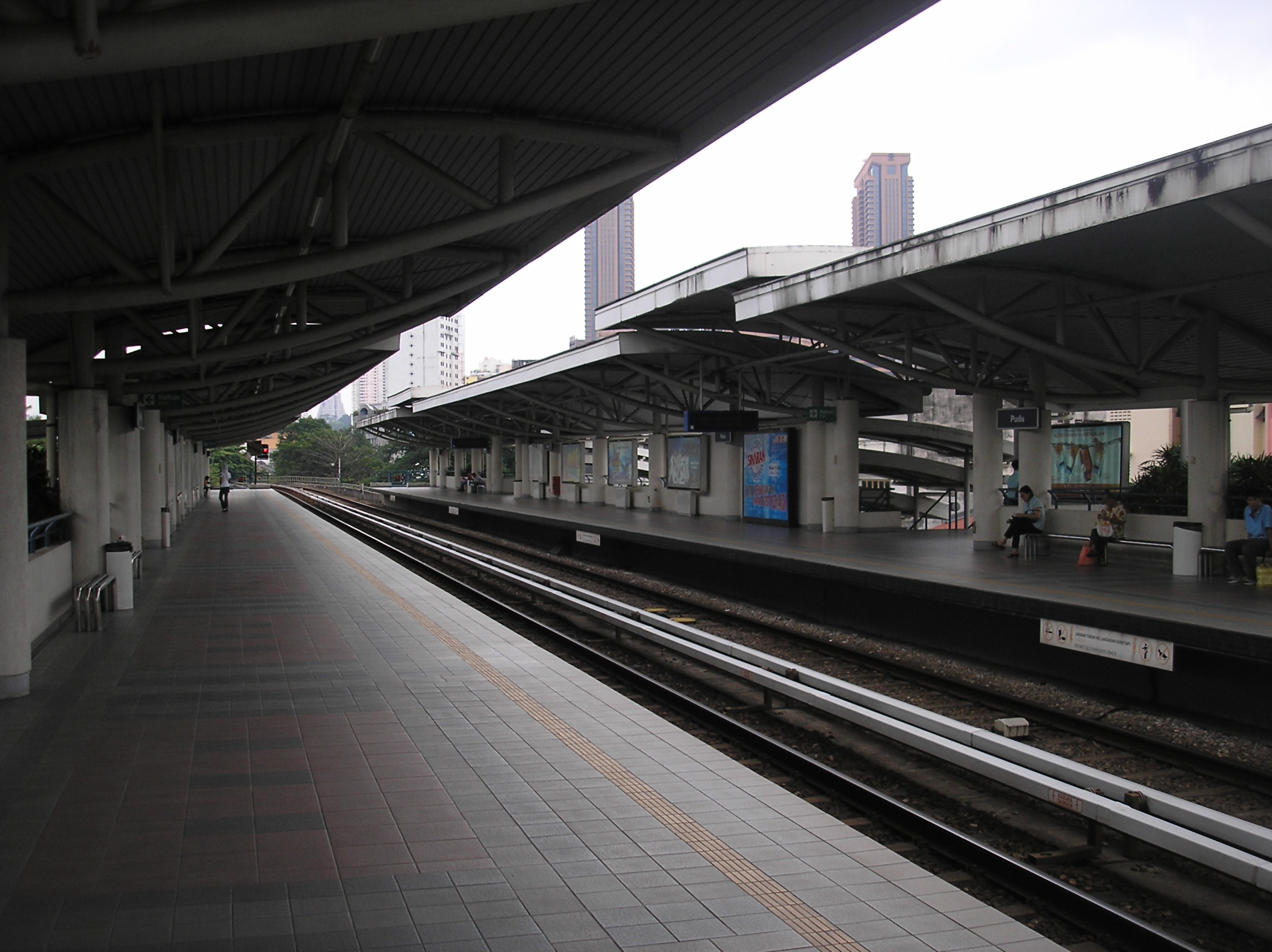 A platform view of the Pudu station (Ampang Line) in Pudu, Kuala Lumpur, Malaysia.